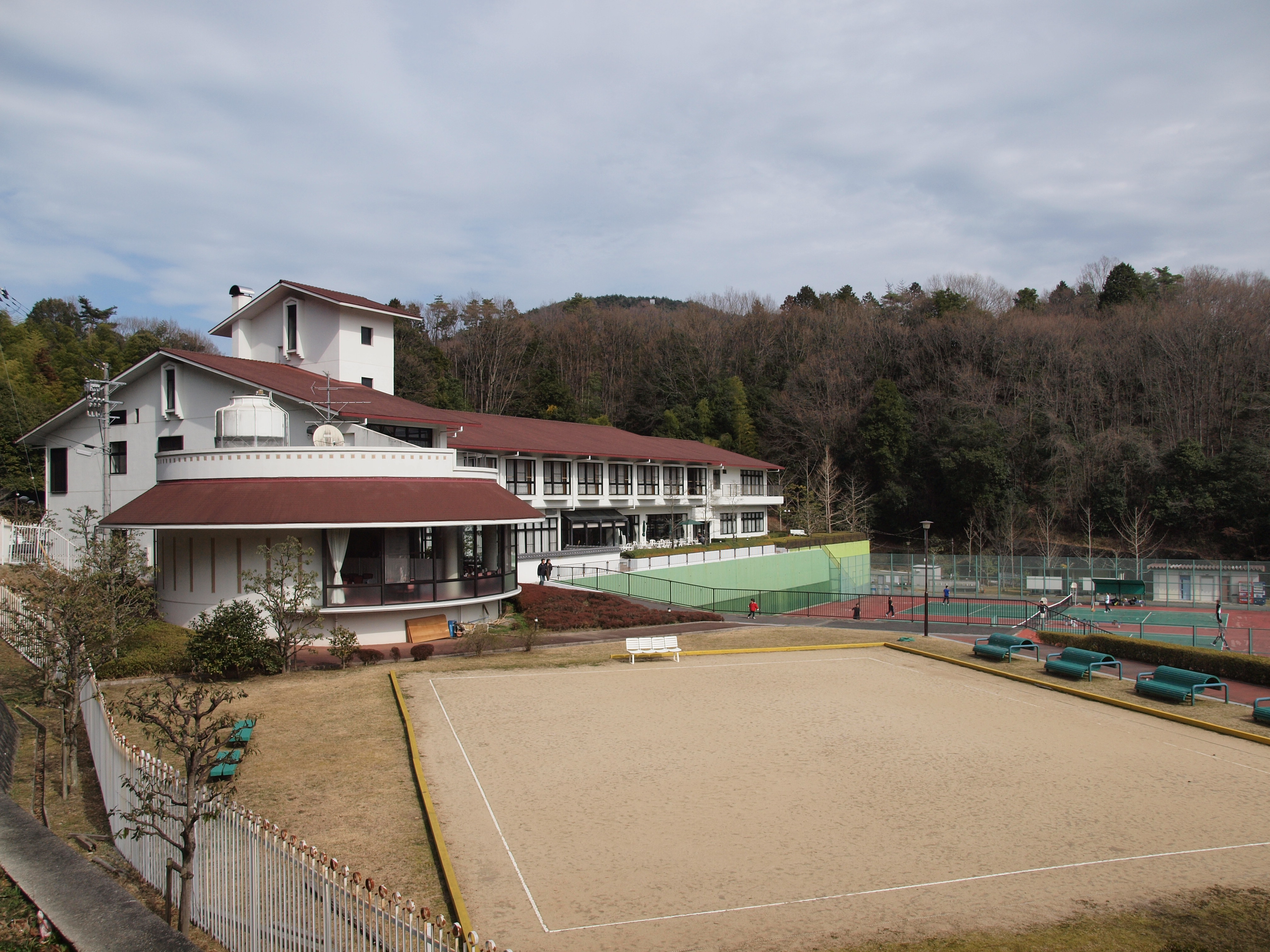 Ninchoji Sports Park in Ibaraki, Osaka, Japan